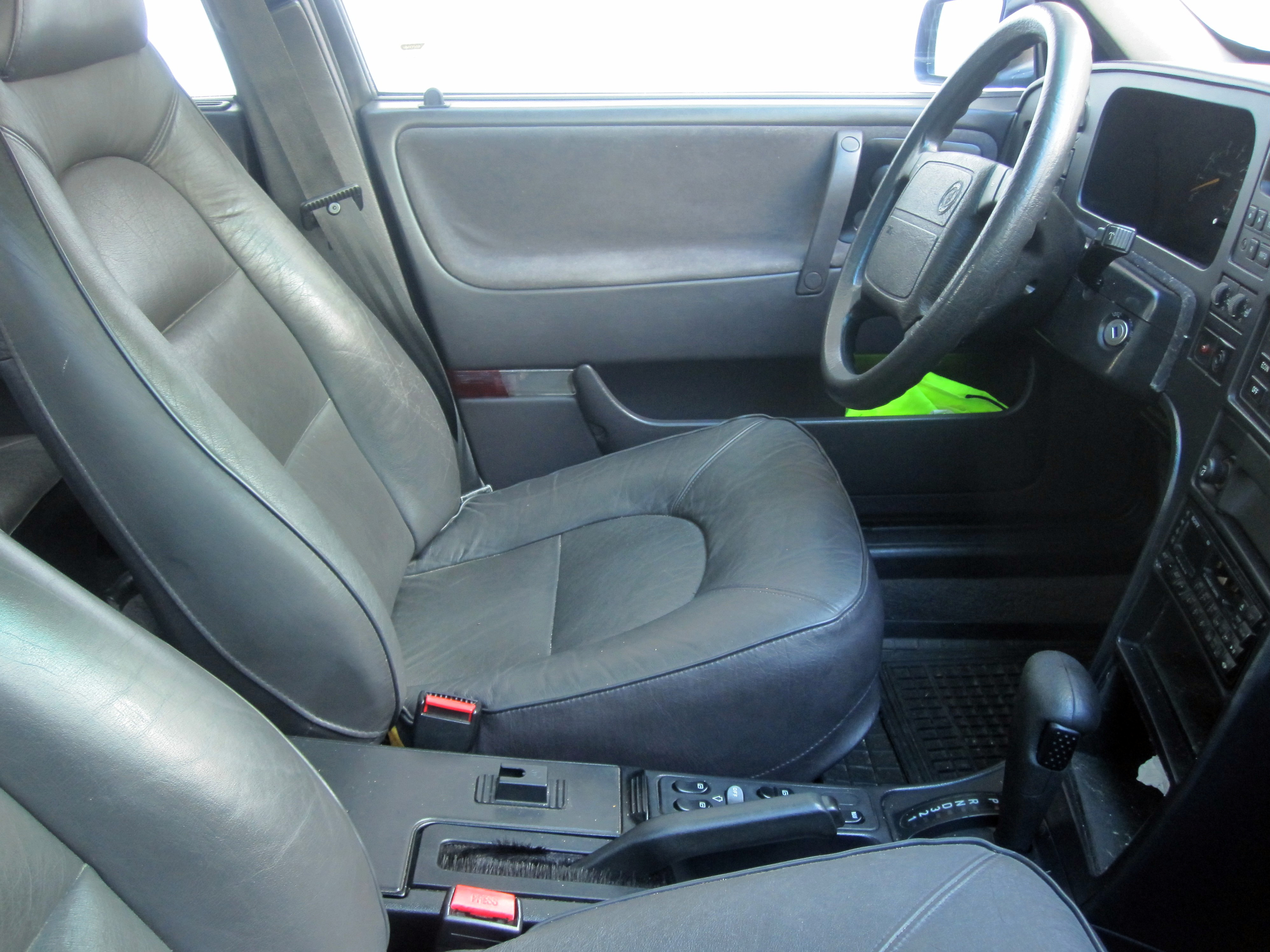 1992 SAAB 9000 CS 2.3 Turbo Interior